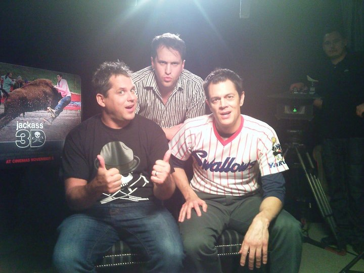 Photo of David Bass with Jonny Knoxville.